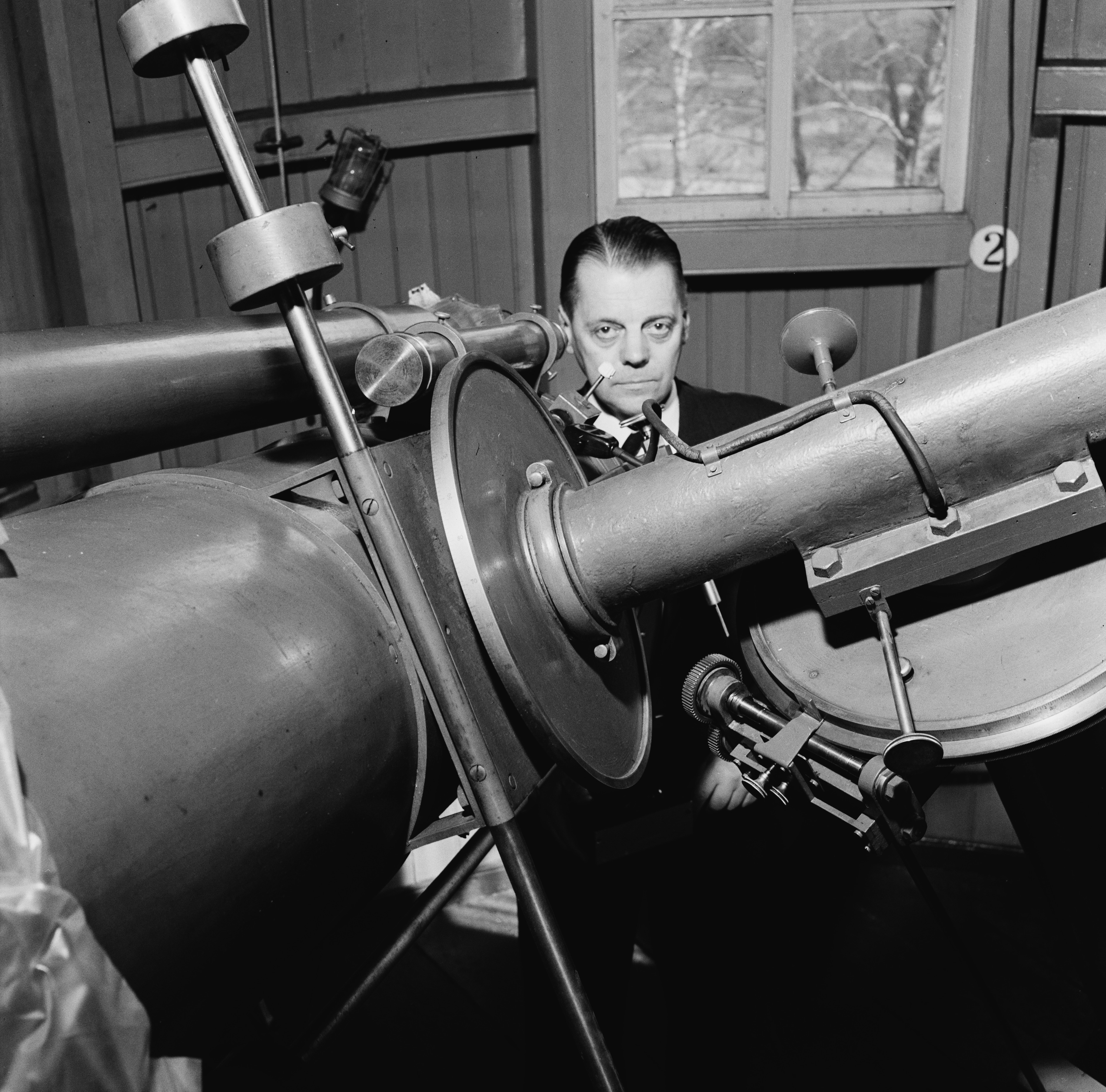 Photograph of the Finnish astronomer Gustaf Järnefelt (1901–1989).